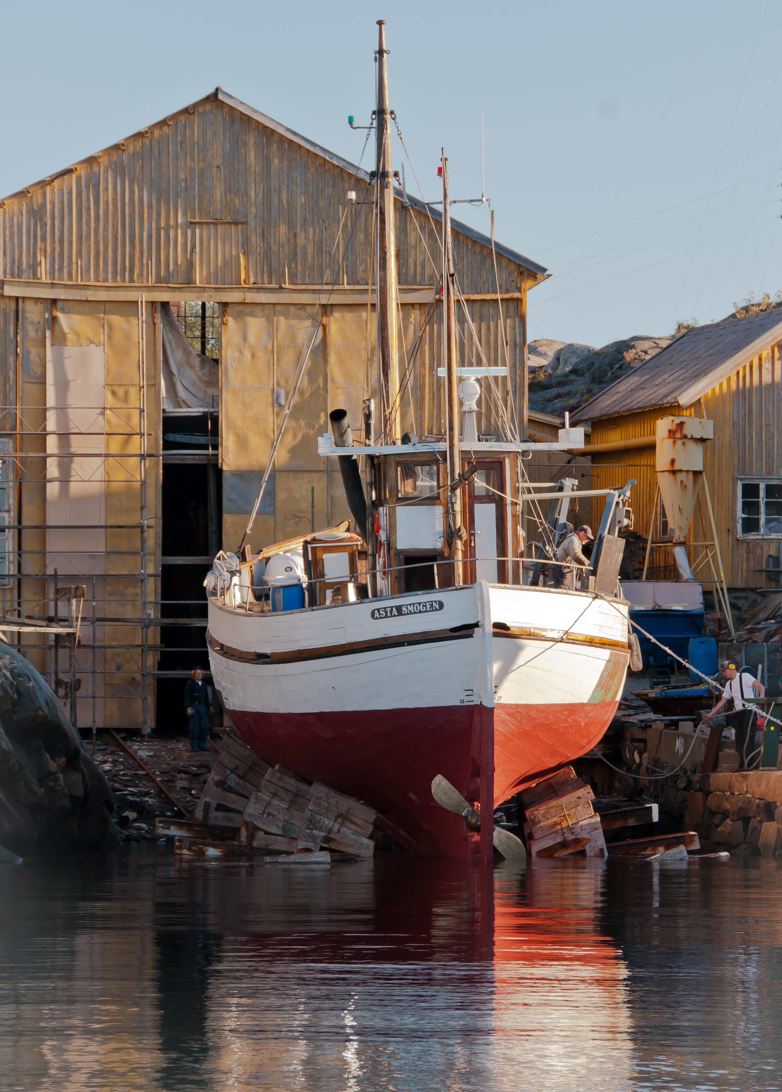 Asta av Smögen has received some maintenance at the famous little shipyard on the island Orust in West Sweden. Early in the morning she is carefully and slowly being brought back to sea. This is an image of the protected Swedish ship Asta af Smögen, with call sign SHJO .